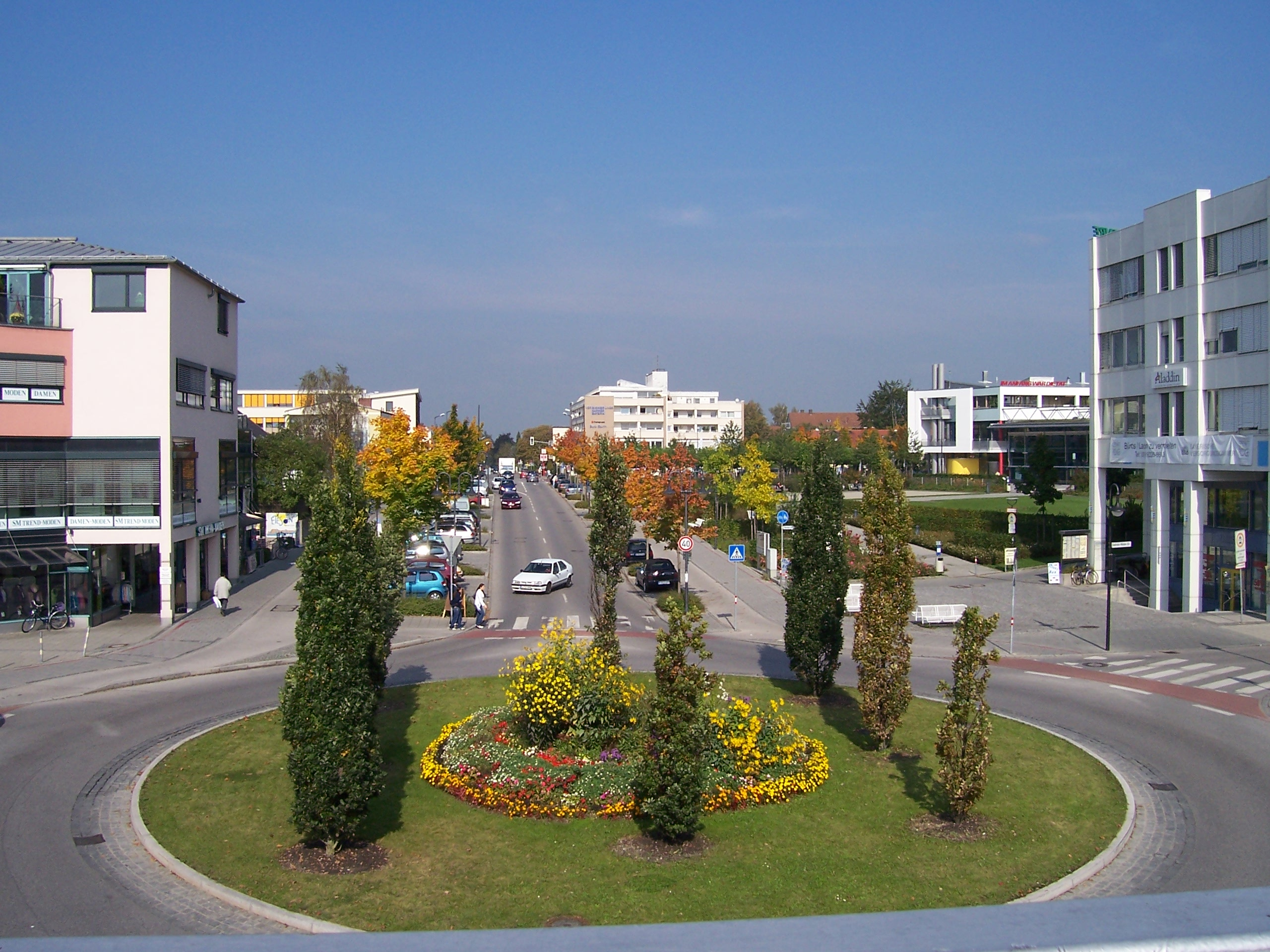 Bahnhofplatz in Germering (Fuerstenfeldbruck Kreis, Bayern, Germany)